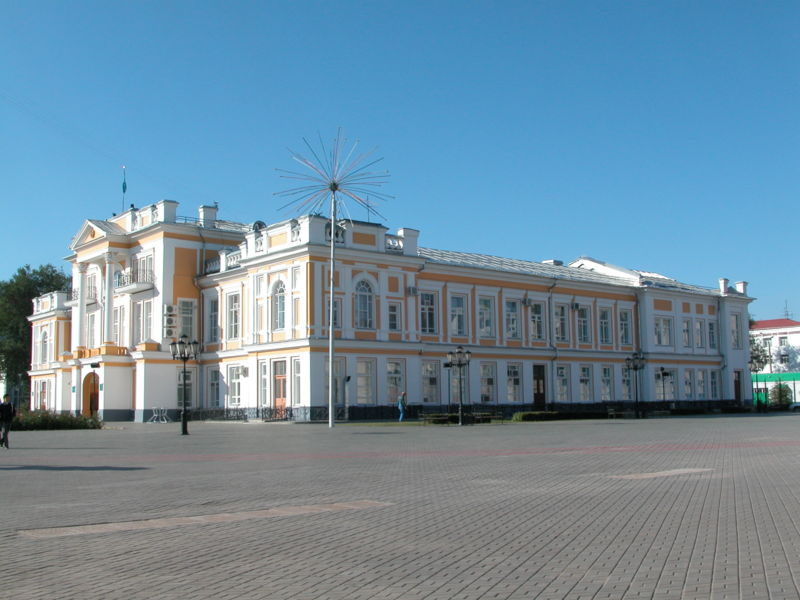 The 19th-century headquarters of the regional administration in Uralsk, Kazakhstan. Photo by User:ArsenG who uploaded it to Russian Wikipedia as Image:Akimat Uralsk.JPG under the license